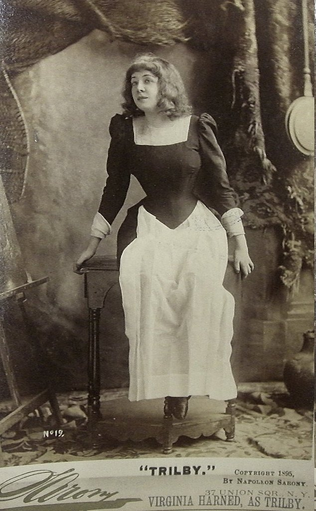 American actress Virginia Harned (1868–1946) in the title role of the original American production of Trilby, which was performed at Boston Museum 4 March 1895 and Garden Theatre, New York 15-20 April 1895